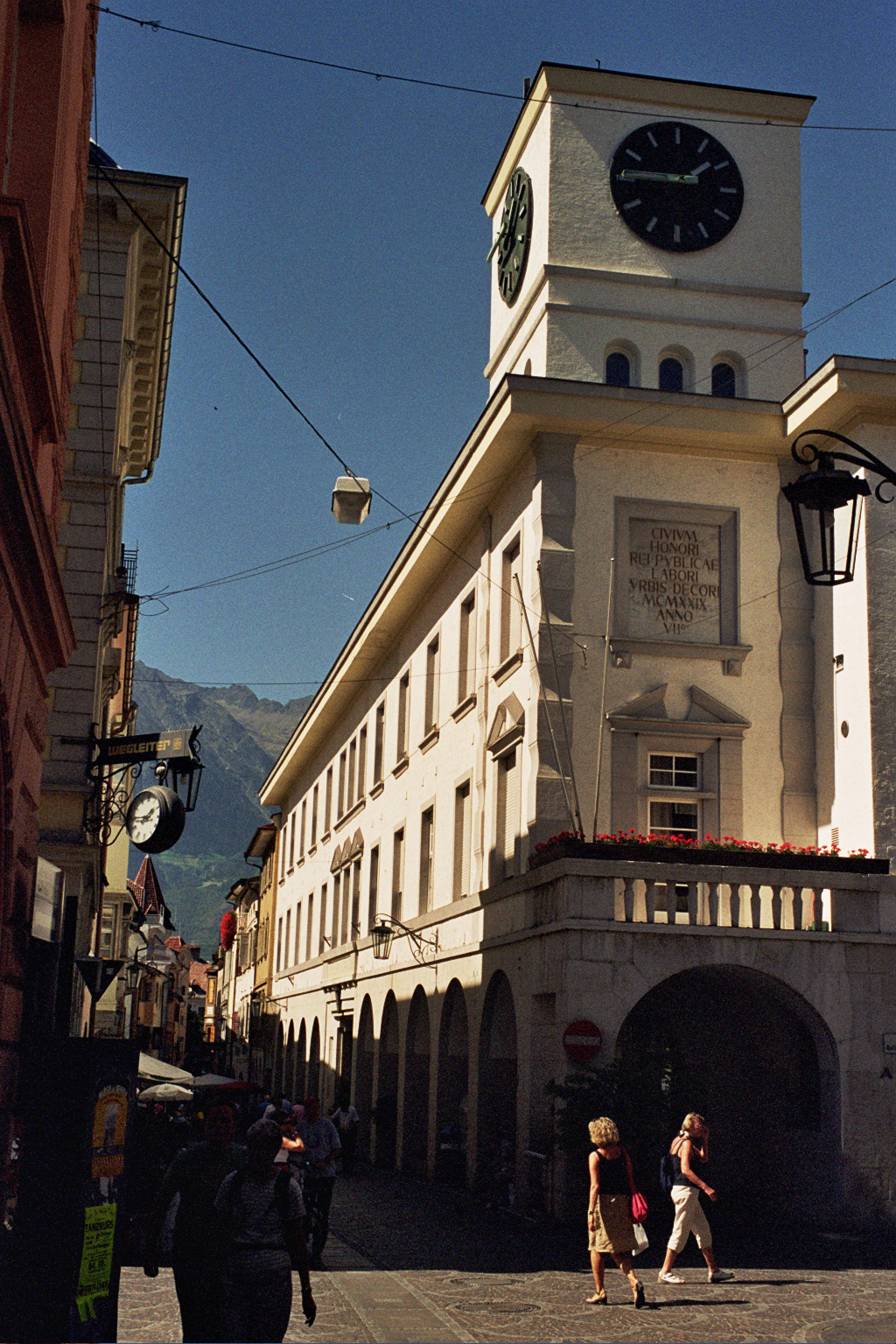 City hall of Meran, built 1929 Benito Mussolini-era. Latin inscription: CIVIUM HONORI, REI PUBLICAE LABORI, URBIS DECORI, MCMXXIX ANNO VII° ("To the honour of the citizens, for work to the state, to the beauty of the city, 1929, seventh year" (of the so-called "fascist era".)